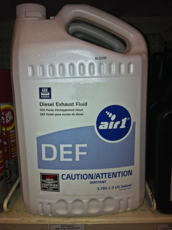 A jug of diesel exhaust fluid on a Canadian Tire store shelf in British Columbia, Canada